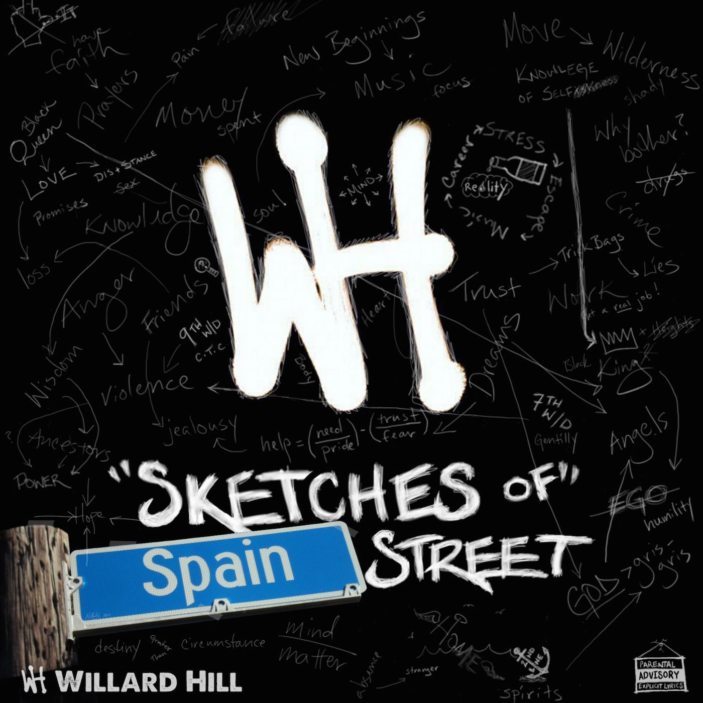 Sketches of Spain Street cover art